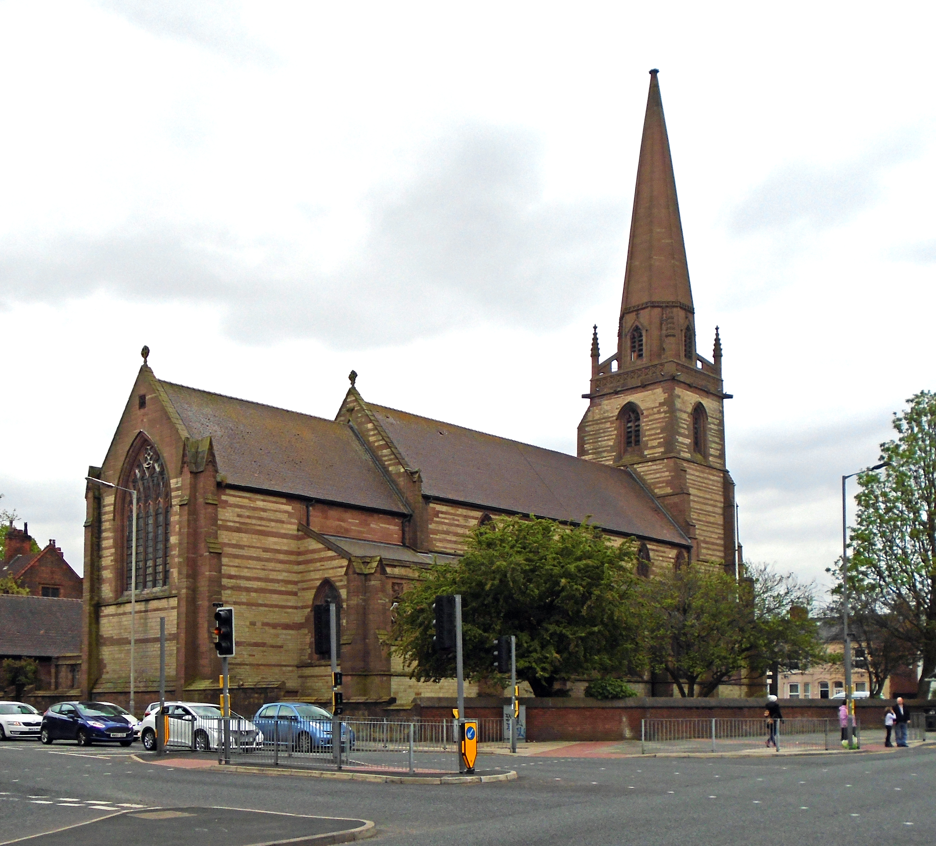 View from near Muirhead Avenue roundabout; traffic from Green Lane waiting to emerge on to West Derby Road.